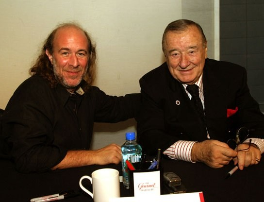 Tom Valenti & Sirio Maccioni - Taken with Tom's camera at a Gourmet magazine event I attended.